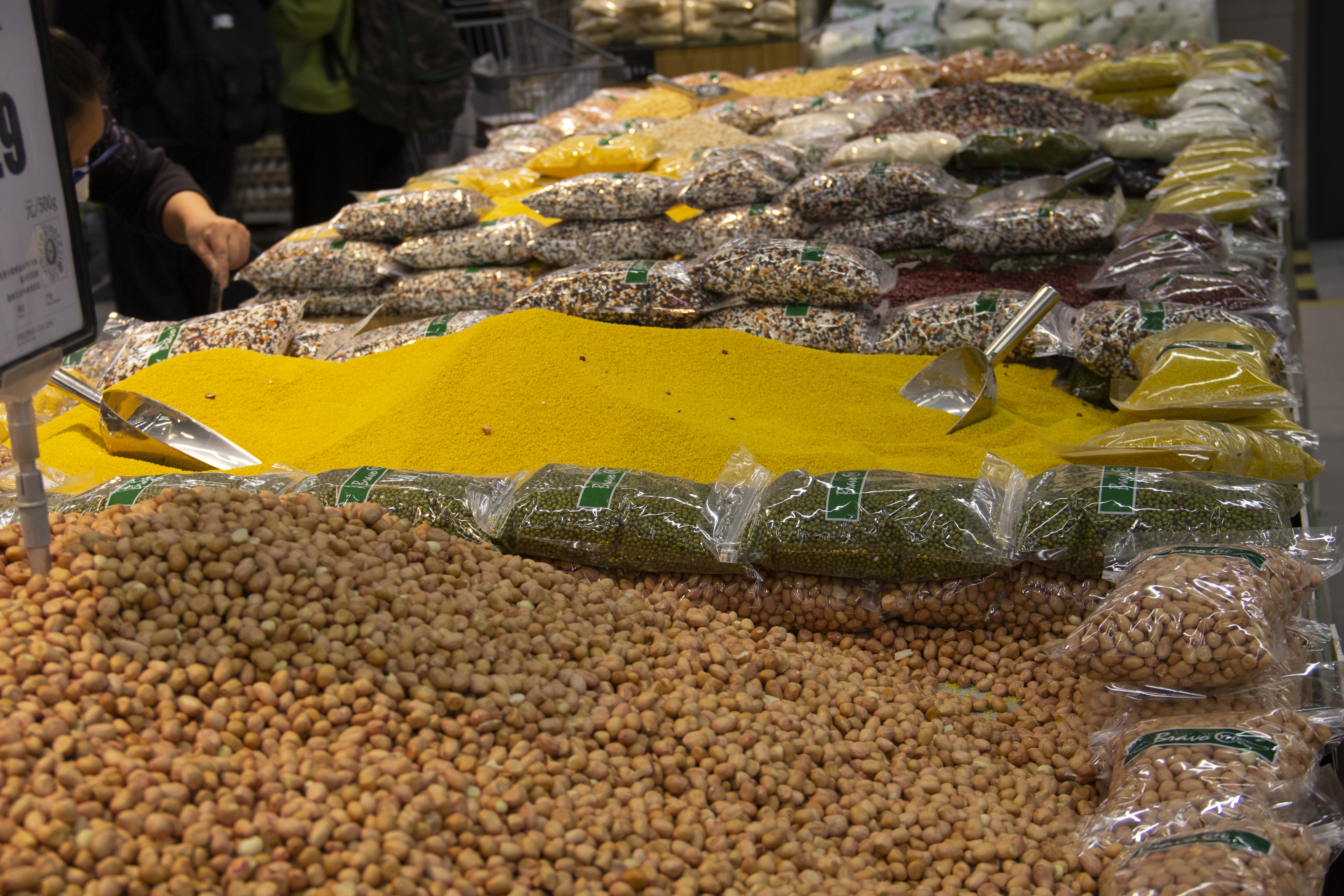 beans in a supermarket